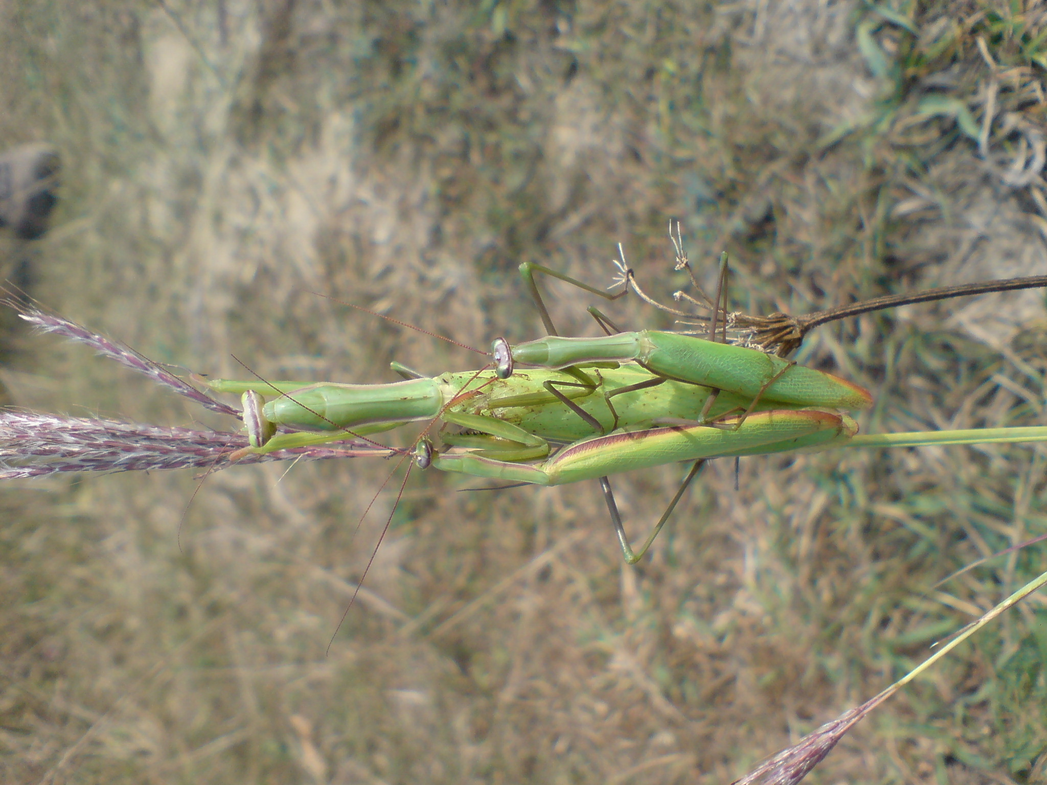 Praying mantis female with two males on its back, Apuseni Mountains, Romania